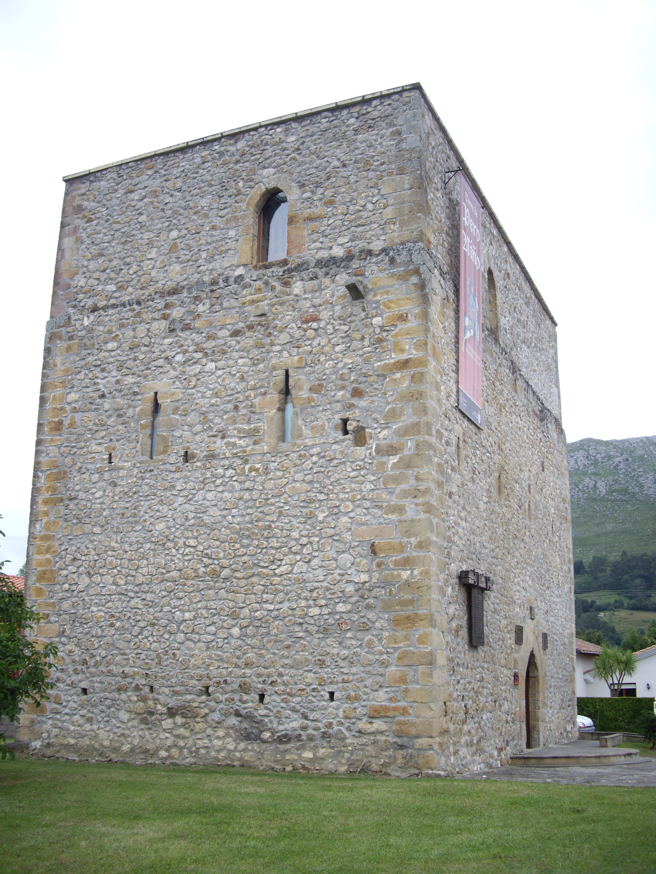 Pero Niño Tower or Aguilera Tower, in San Felices de Buelna (Cantabria, Spain). Last decades of the 14th century. Around 11.50 metres high.